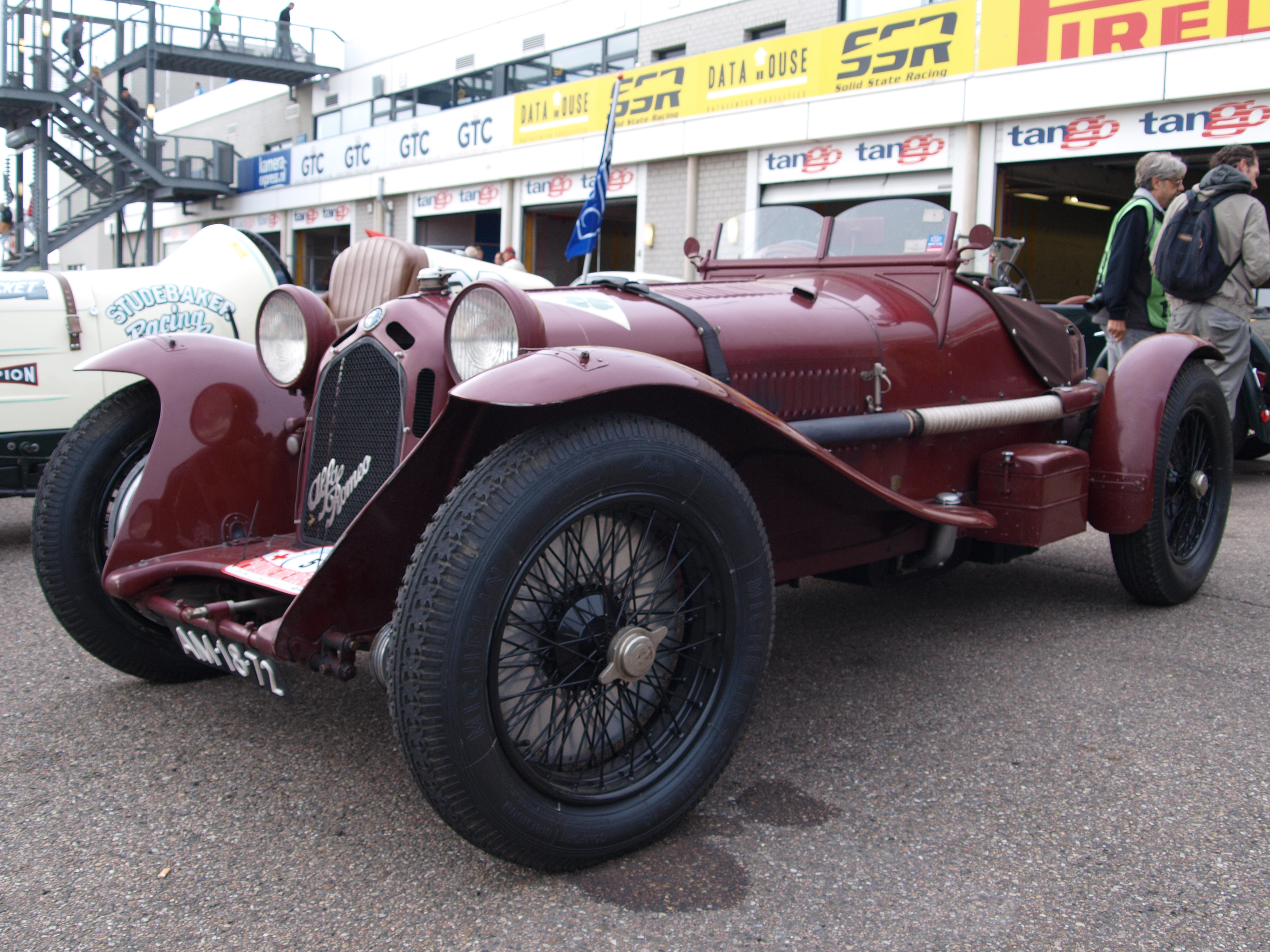 Photographed at the Nationaal Oldtimer Festival Zandvoort 2010, The Netherlands.